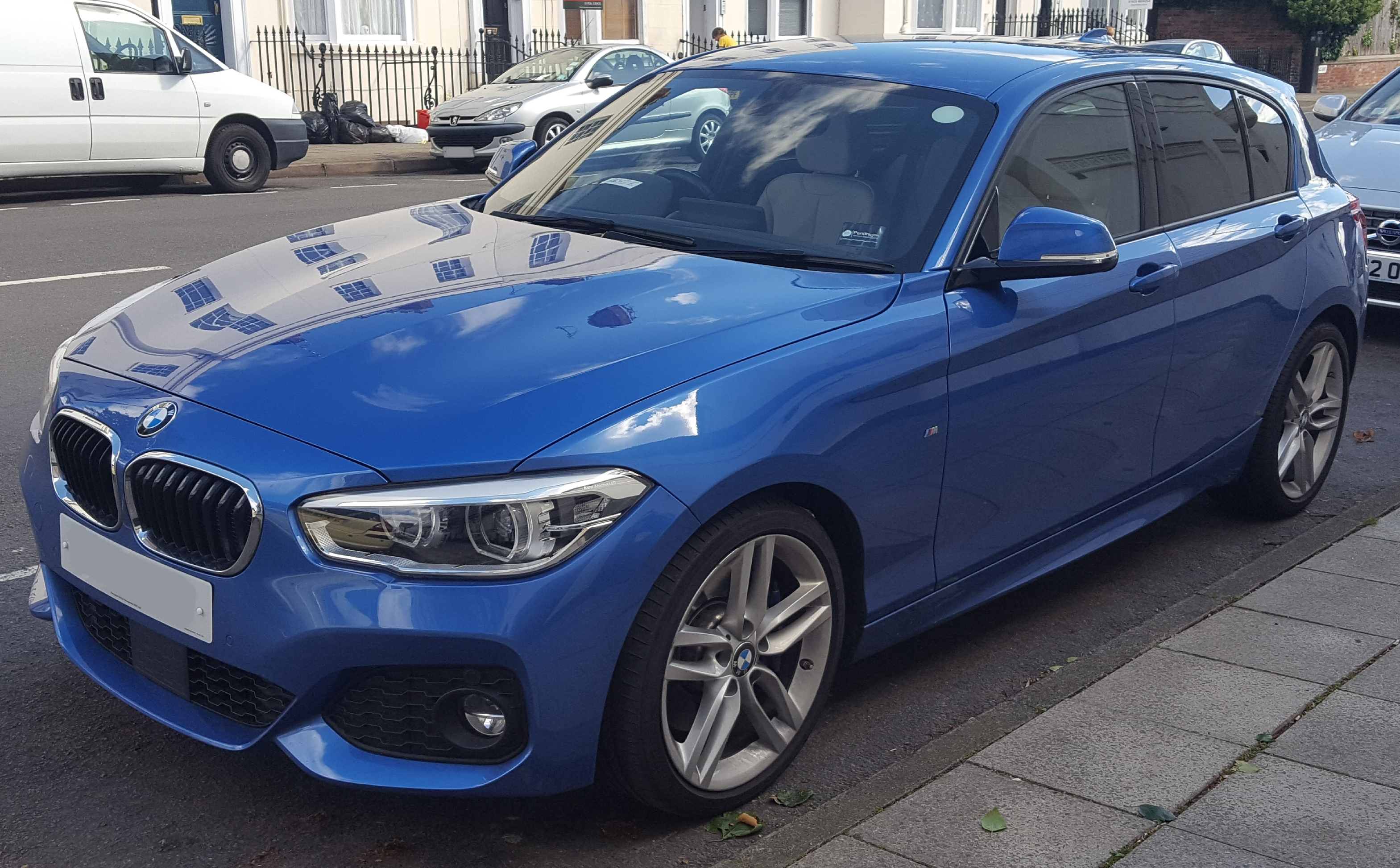 2016 BMW 118i M Sport Automatic 1.5 Front Taken in Leamington Spa